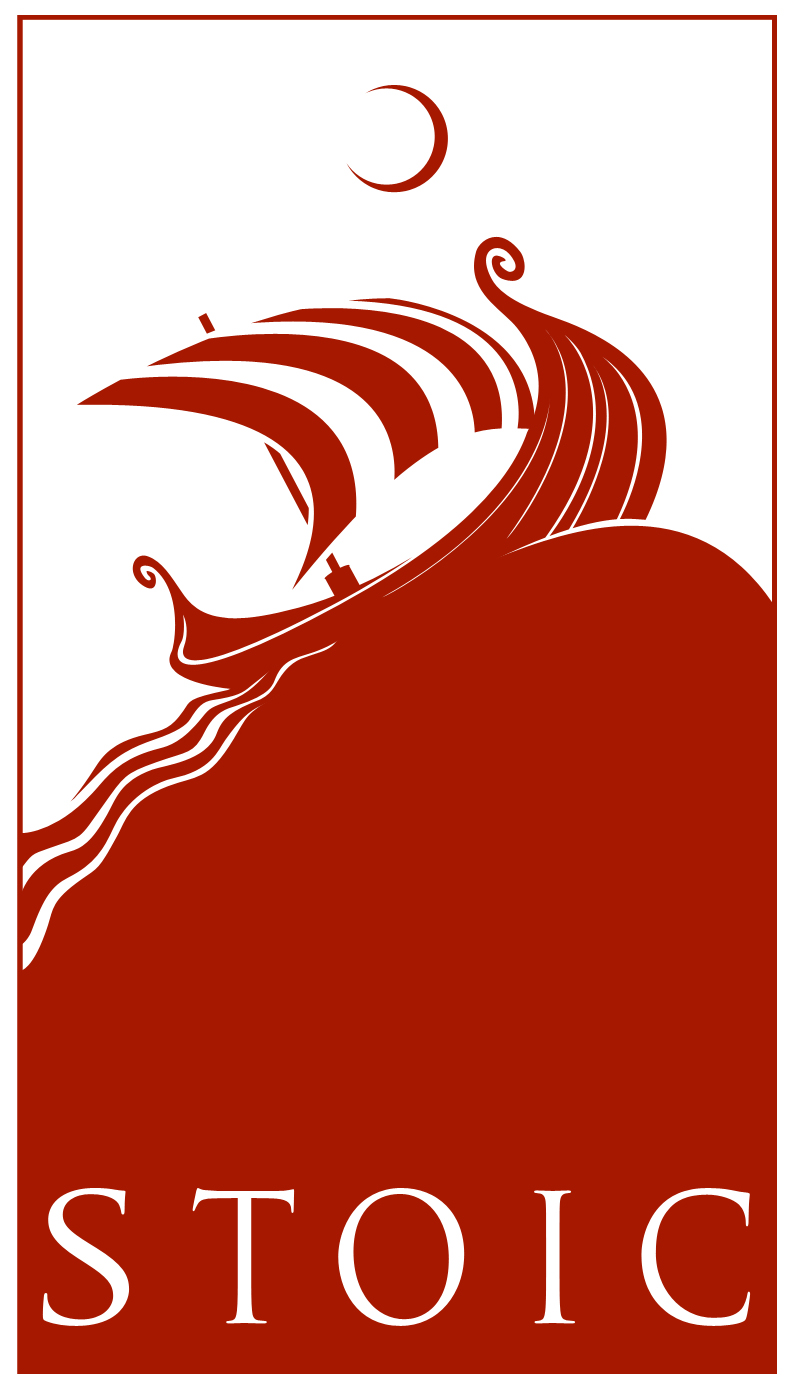 Logo of the video game developer Stoic Studio.